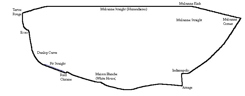 Modified file of another